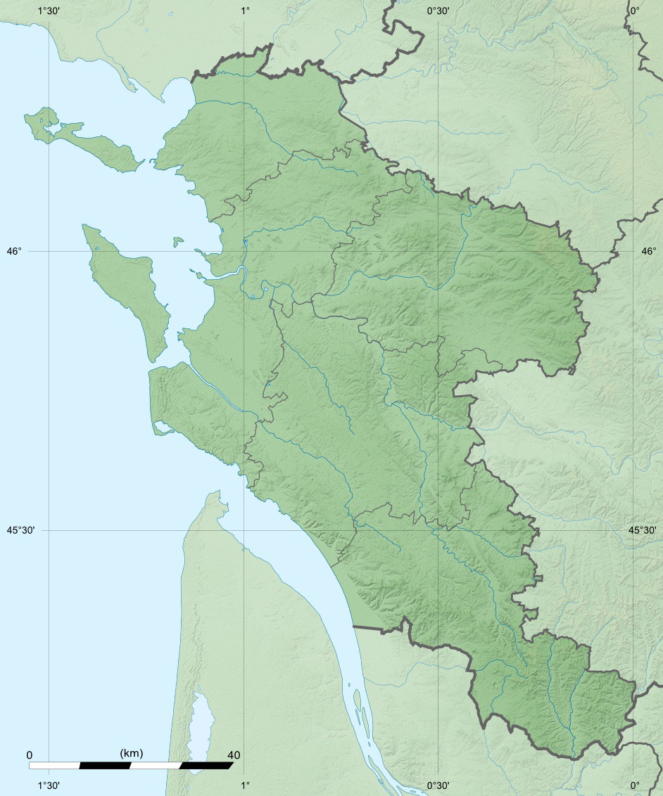 Blank physical map of the department of Charente-Maritime, France, for geo-location purpose, with distinct boundaries for regions, departments and arrondissements.